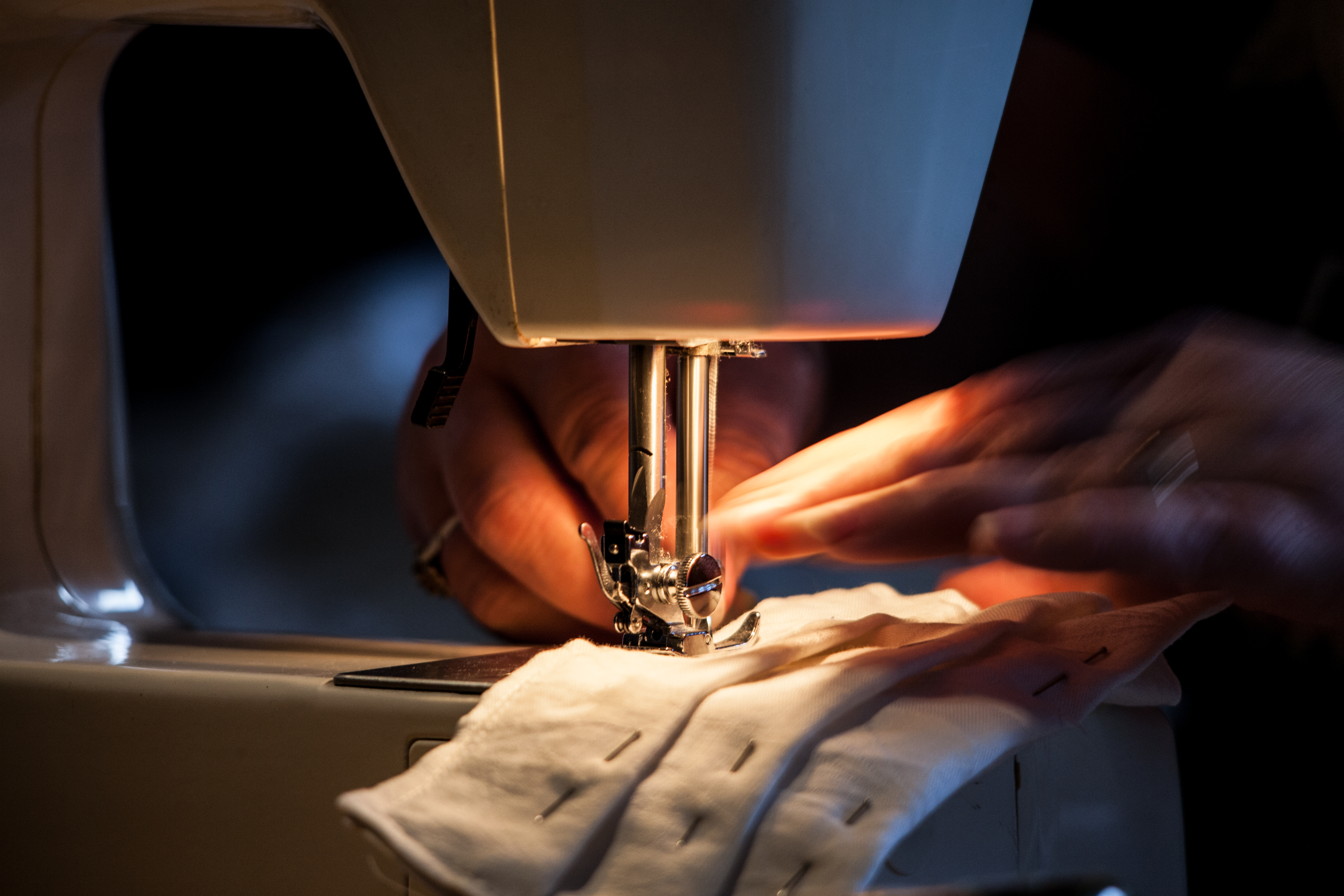 Woman hands sewing a home-made medical face mas with a Singer Ideal Model 1014 sewing machine due to the resolution of the Government of the Czech Republic (no. 106/2020 Coll.) about the obligation of wearing any kind of respiratory protection in reaction to the 2020 coronavirus pandemic in Czechia (lots of Czech family members and volunteers thus embarked on making their own face masks).